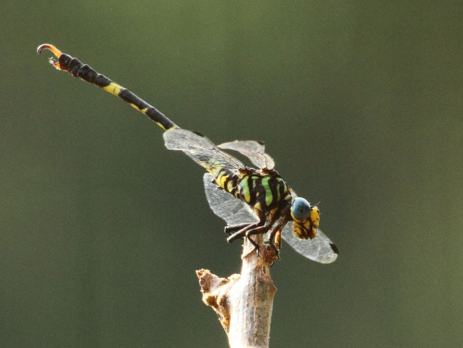 Male Great Hooktail Paragomphus magnus, Makhathini Research Station, KwaZulu-Natal. OdonataMAP record no. 16665